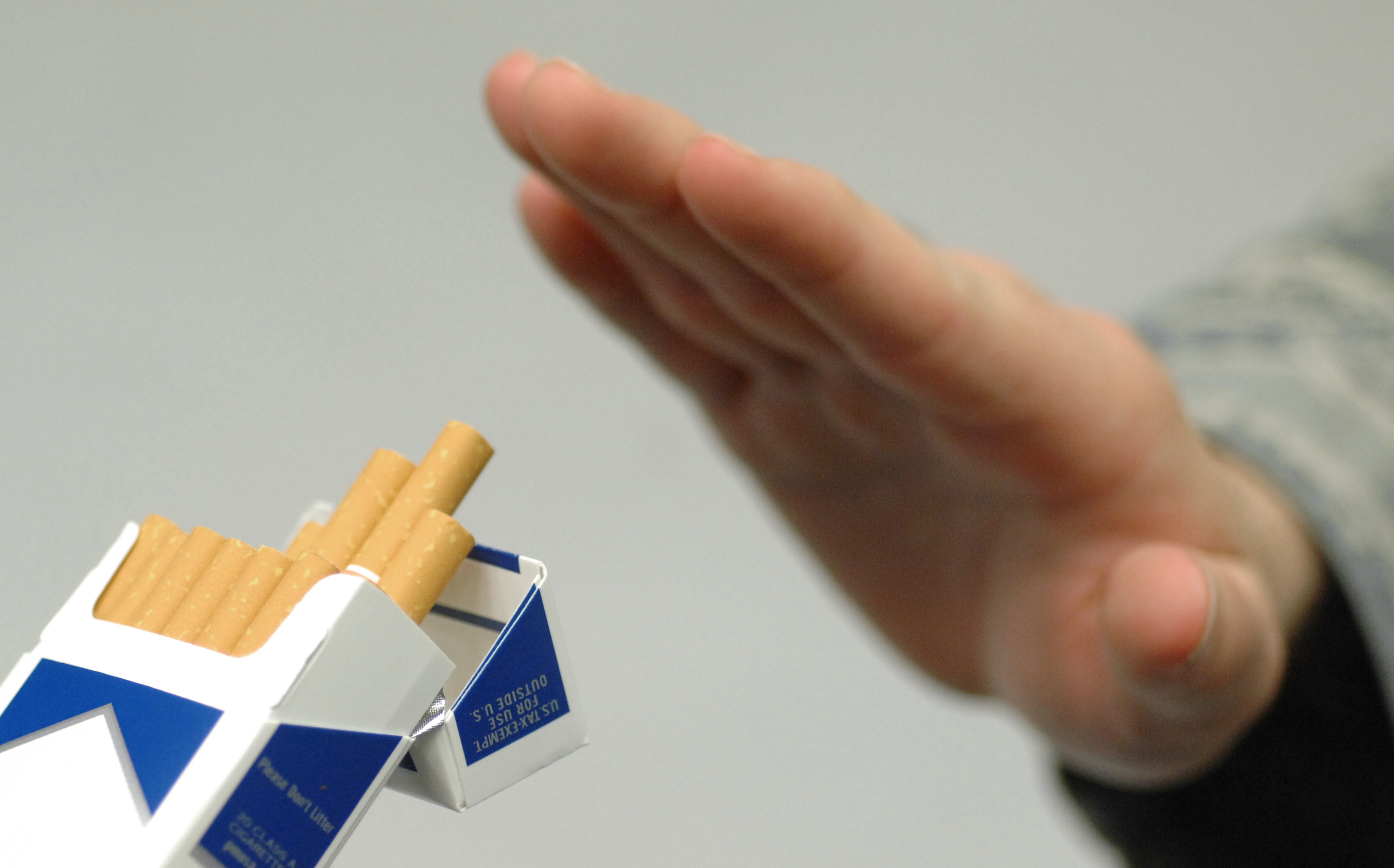 The casual acceptance of smoking was common place when the American Cancer Society's Great American Smoke Out became nationwide more than 30 years ago. The first national Great American Smoke Out was in November 1977. This quarter century has brought about dramatic changes in the way society views tobacco use. Approximately 46 million adults in the United States currently smoke, an estimated half will die prematurely from diseases considered smoking related. November is also Tobacco Awareness Month. Ramstein Air Force base's Health and Wellness Center hosts many ways for Airman and their family's to kick the habit, to include Smoking Speciation classes, Behavioral Classes and tobacco free nicotine substitutes to assist with cravings that may otherwise sabotage a smoker's attempt to quit. (U.S. Air Force illustration by Airman 1st Class Brittany Perry)